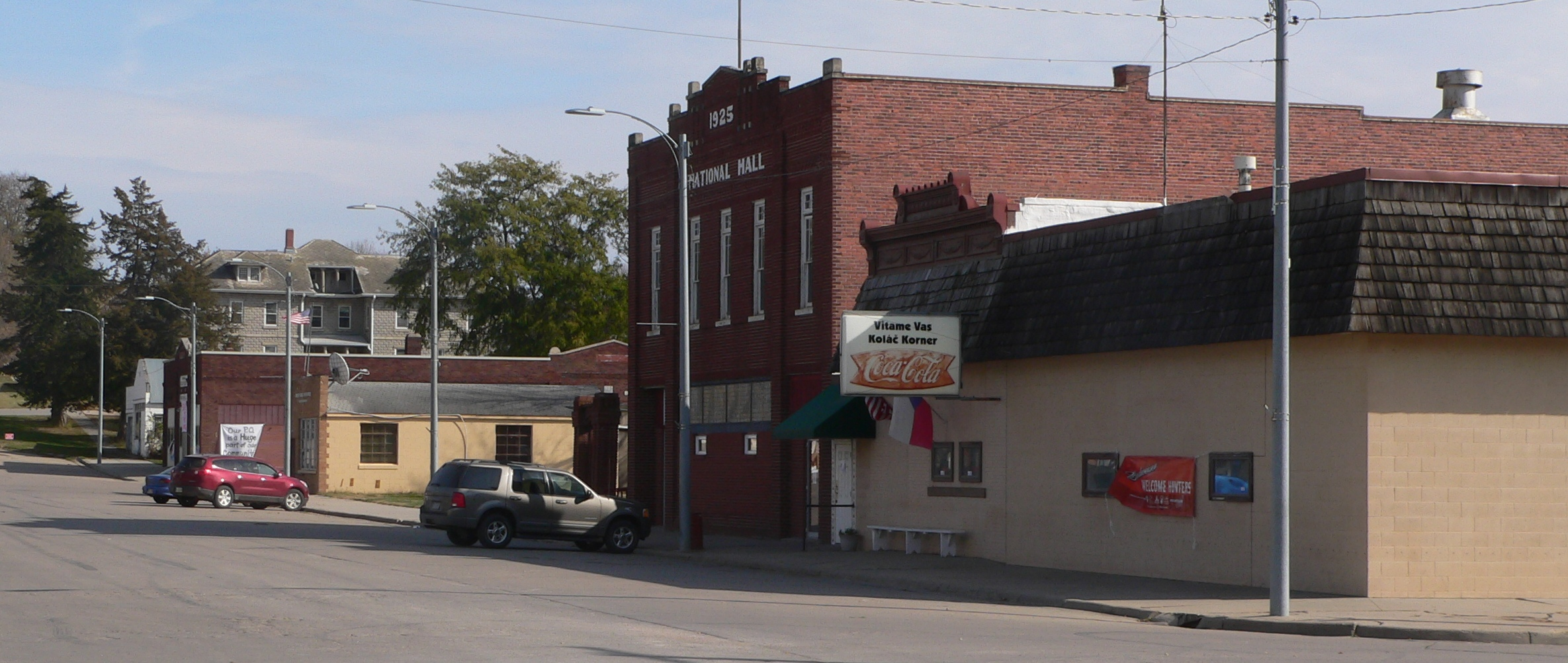 Downtown Prague, Nebraska.